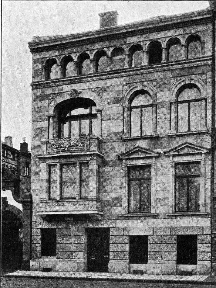 Haus Haroldstraße 10a in Düsseldorf, erbaut vor 1904 von dem Architekten Ernst Roeting, Ausschnitt.jpg